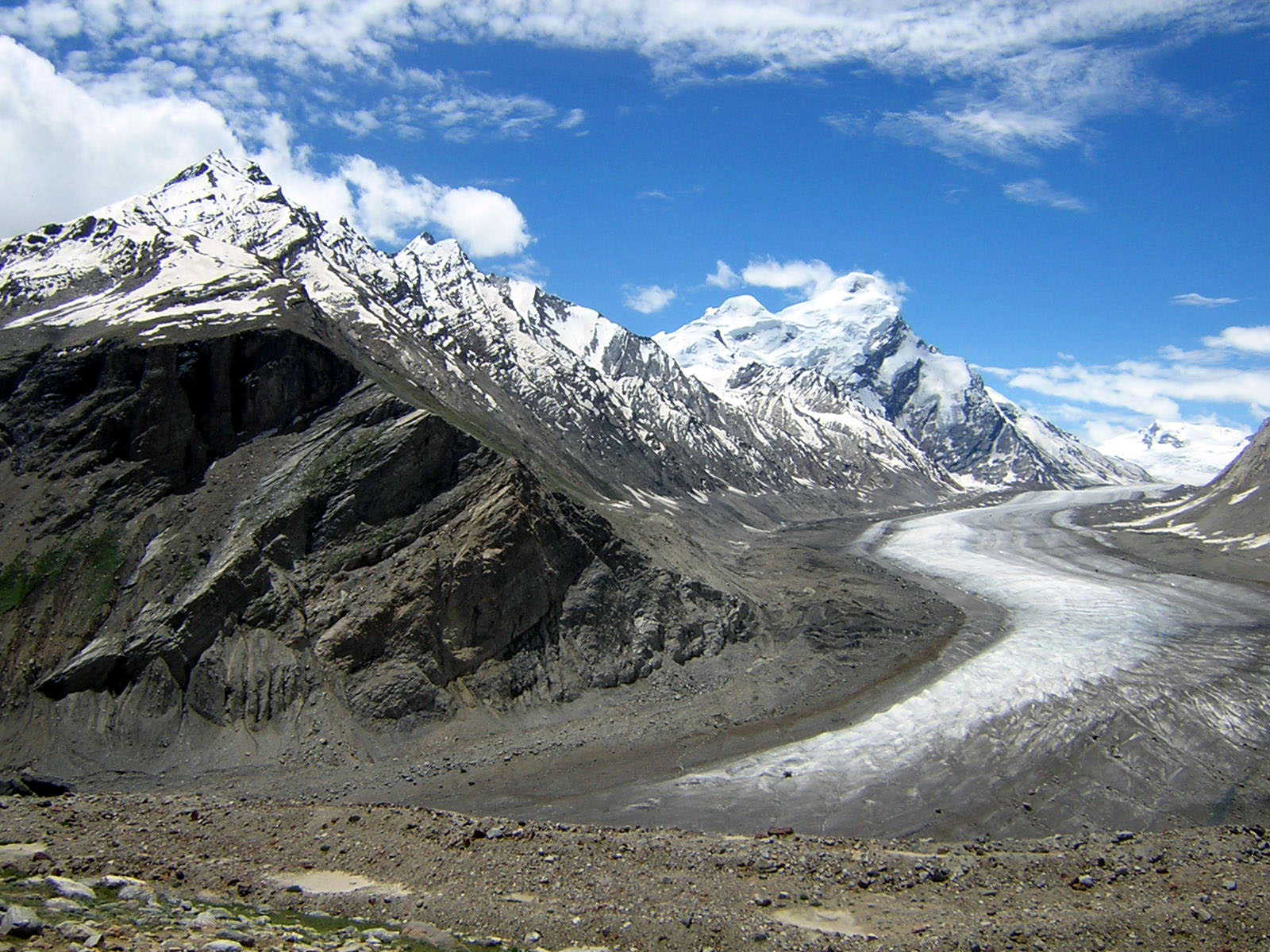 Drang-Drung is said to be the largest glacier in Ladakh, outside the Siachen formation. One of the main tributaries of the Zanskar river, the Stod or Doda river, is created from this glacier.